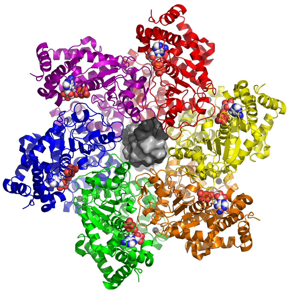 The hexameric assembly of the SV40 polyomavirus large tumor antigen (LTag) zinc finger and helicase domains (rainbow) bound to ADP (white spheres) and a double-helical DNA structure (center, light and dark gray) that forms the origin of replication in the viral genome. Compare File:2h1l LTag p53.png, showing the same protein bound to cellular p53. Rendered from PDB ID 5TCT: Elife. 2016 Dec 6;5. pii: e18129. The structure of SV40 large T hexameric helicase in complex with AT-rich origin DNA. Gai D, Wang D, Li SX, Chen XS. PMID: 27921994